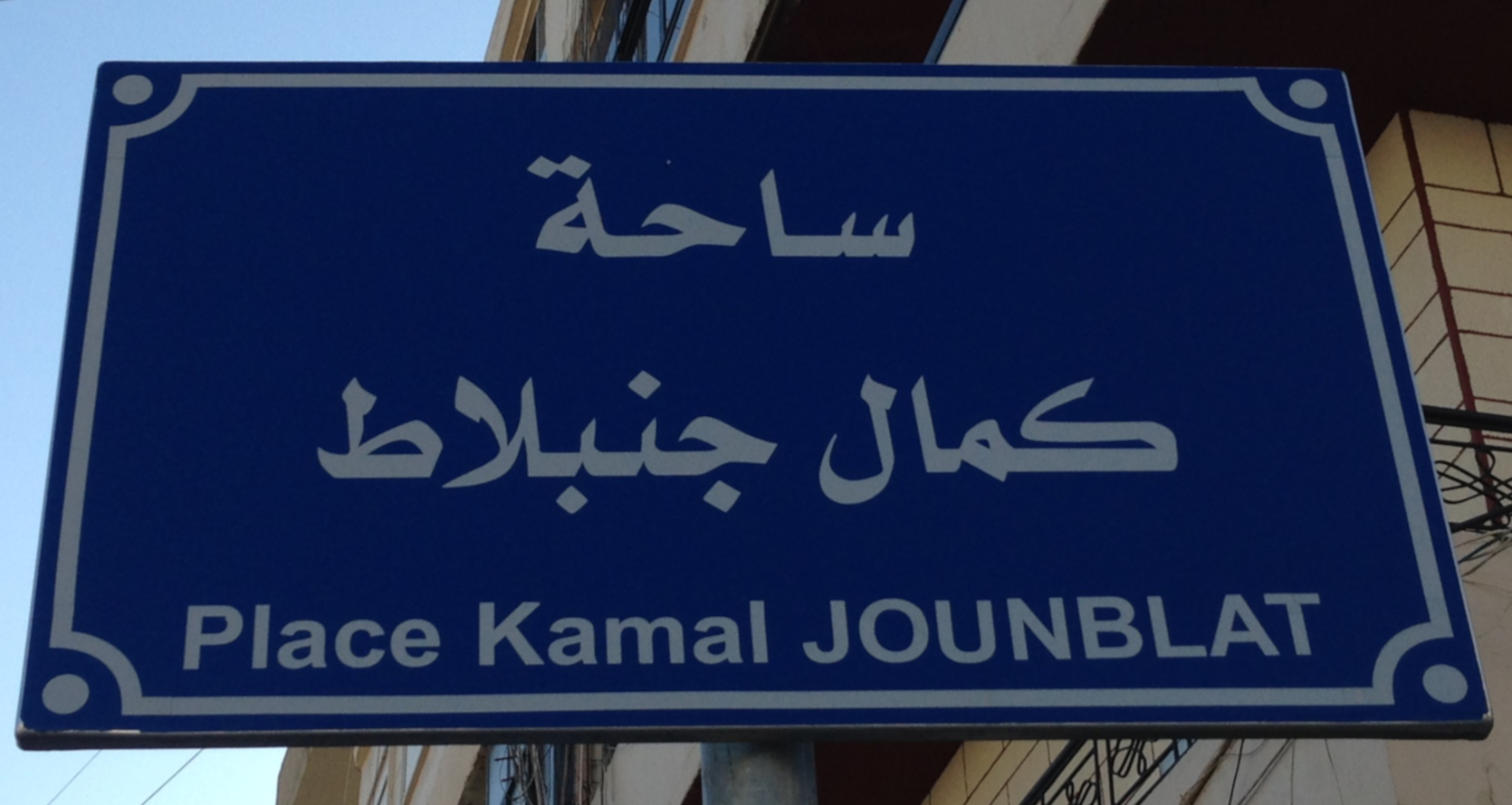 Street sign in Tyre (Sour/Tyr/Tyros), Lebanon, at the Kamal Jumblatt Square (Place Kamal Jounblat), named after the Lebanese Druze politician and militia-leader, who was assassinated during the Lebanese Civil War in 1977. The naming reflects the fact that his son Walid became one of the closest allies of the Amal Movement, which traditionally has one of its strongholds in Tyre, during the war. A nearby street is named after Amal's longtime leader Nabih Berri.